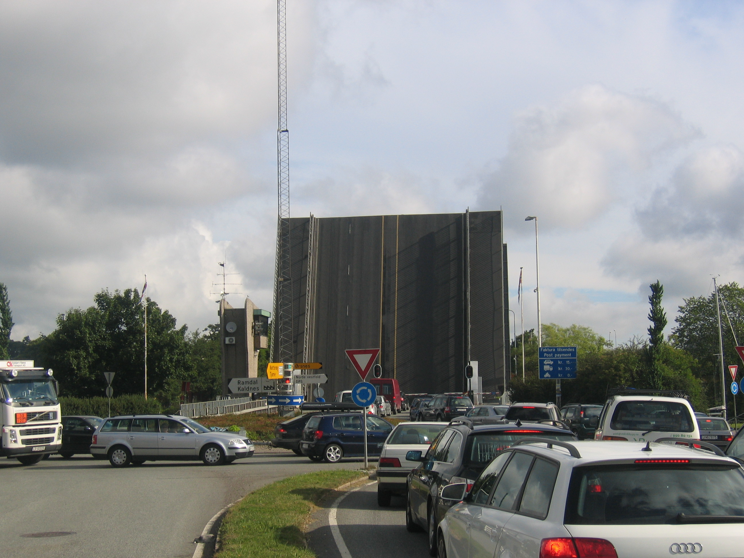 Kanalbrua bridge in Tønsberg, Norway. It opens every hour, and the road trafic has to wait for the boats to pass througt the channel.